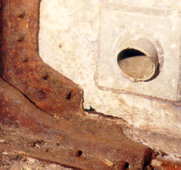 Galvanic corrosion of aluminum and steel in seawater